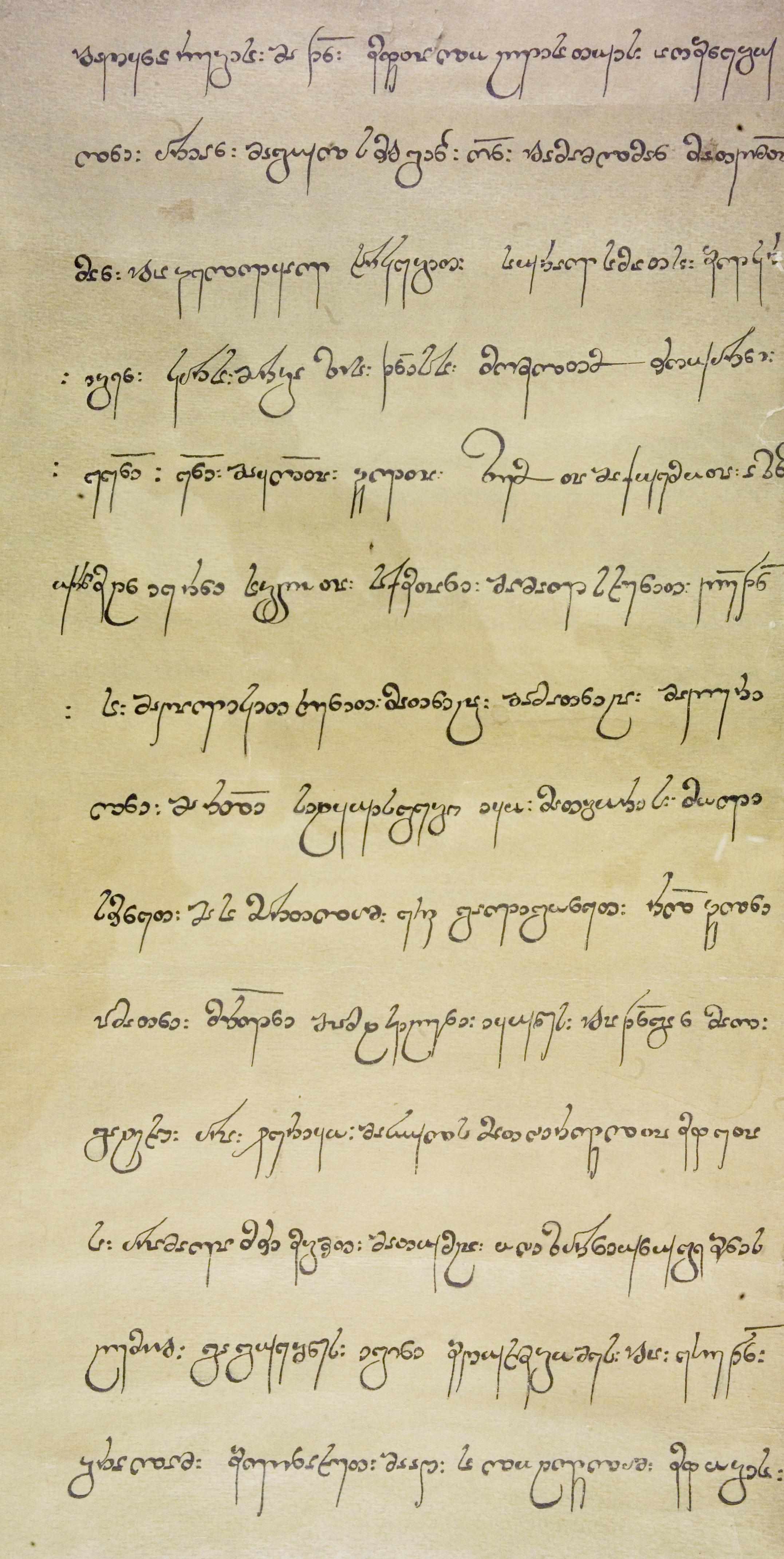 Royal charter of King Bagrat IV of Georgia